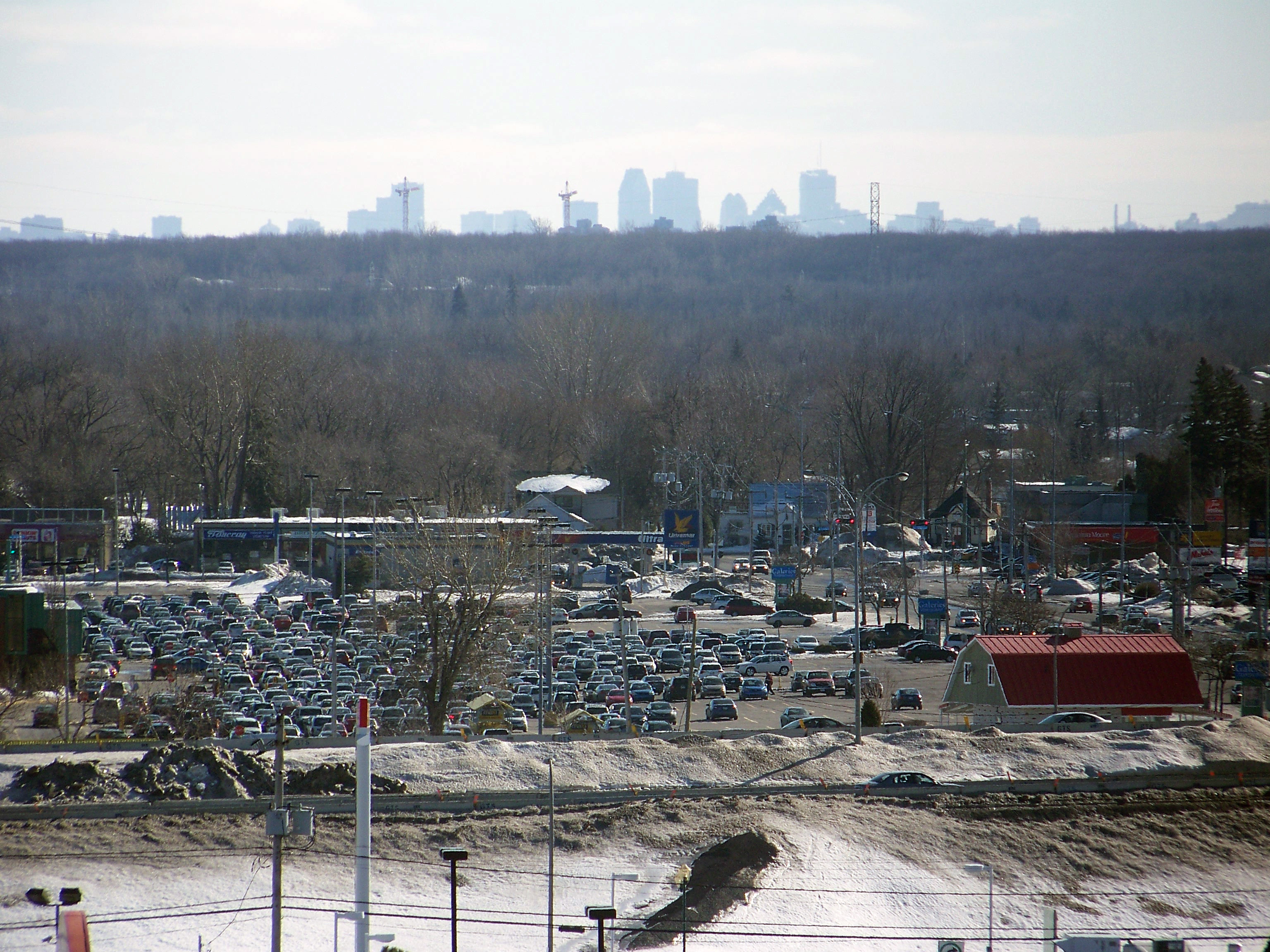 Montréal from Terrebonne